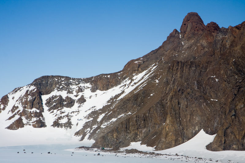 Rumdoodle Peak with the small green hut visible at the base. Photographed Dec 3, 2008